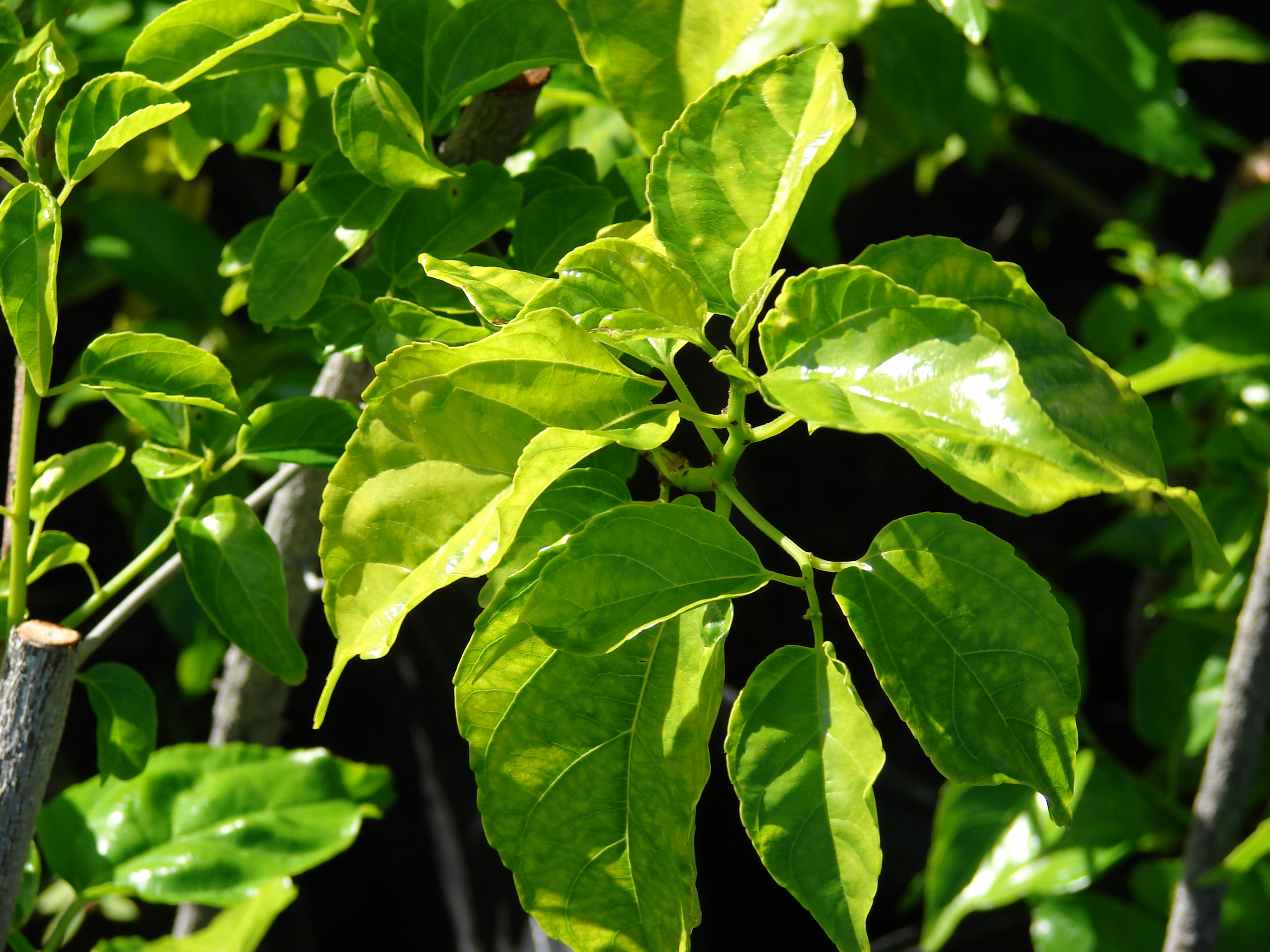 Colubrina asiatica (leaves). Location: Maui, Hoolawa Farms Haiku